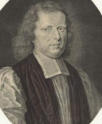 John Sharp, Archbishop of York (1643-1714)